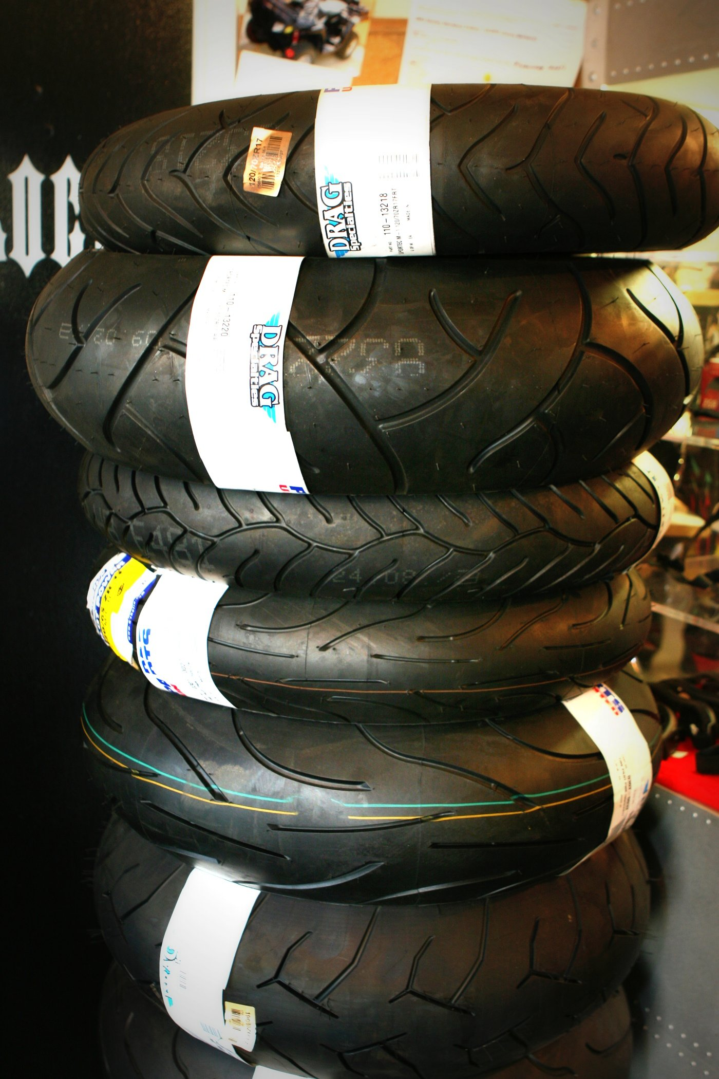 A stack of different sized motorcycle tyres